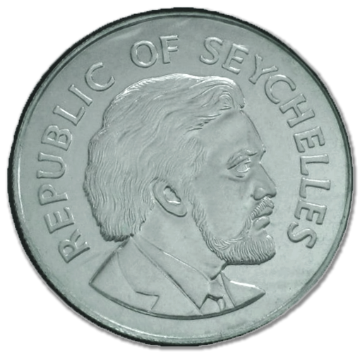 James Mancham ; Seychelles, 25 Rupees, 1977, front